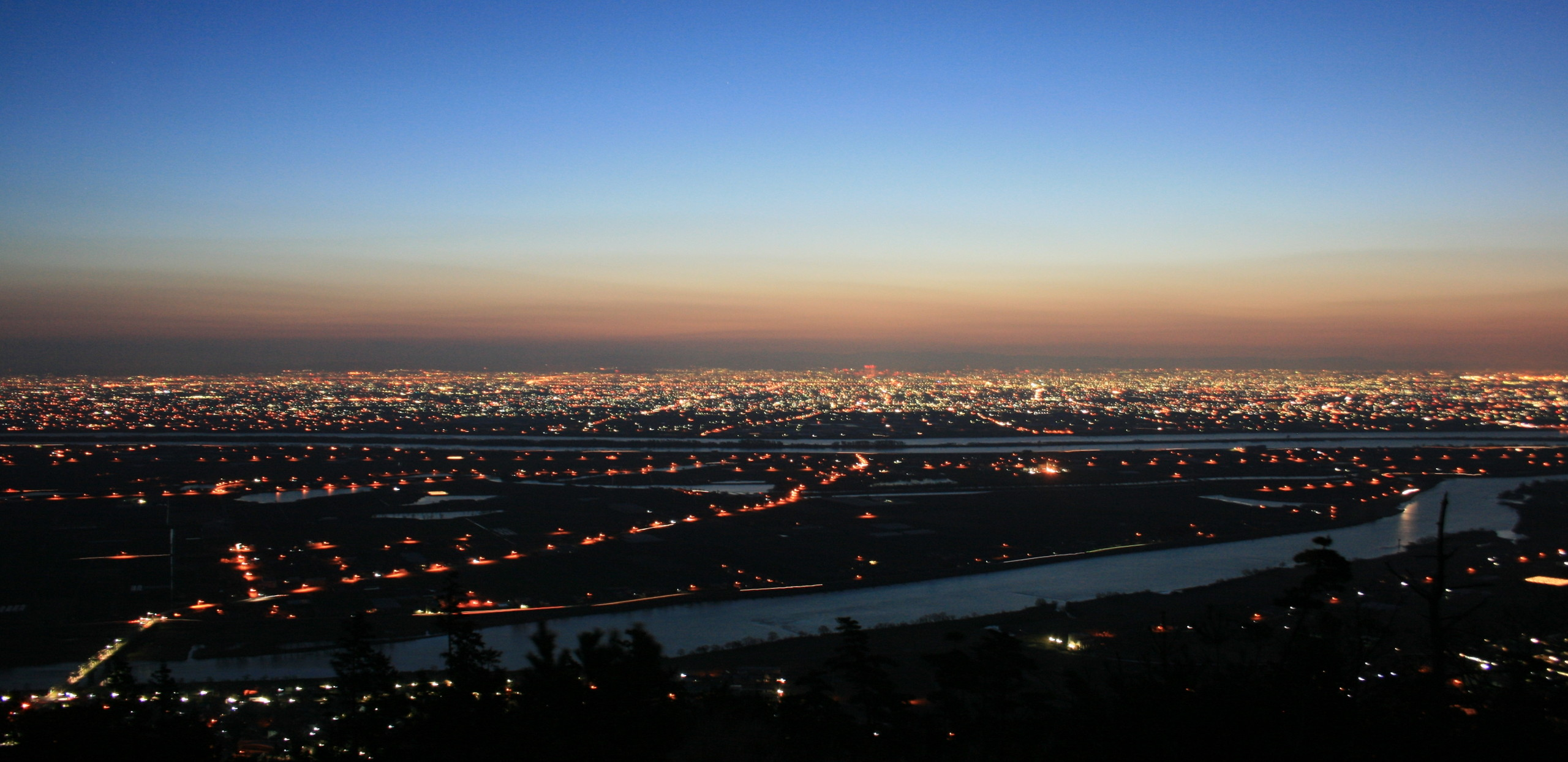 Nōbi Plain and Kiso Three Rivers seeb from Ishizuontake in Japan.